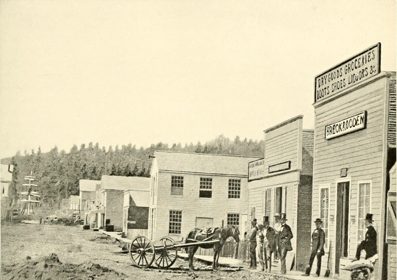 First photo taken of Front Street, Portland, Oregon in 1852 (claim from caption in Centennial History of Oregon Vol. 1). Further details from caption: The citizens proudly showing the first dray.--Reading from right to left, the first tall hat man, is W. S. Ogden, merchant; the next man Odgen's partner, John M. Breok; next, tall hat man, Henry W. Corbett; next, tall hat man, is Thomas J. Dryer (founder of "The Oregonian"); the man in the door, behind Dryer, is W. H. Barnhart, first agent for Wells Fargo in Oregon; the short man, beyond Dryer, is Adolph Miller, the drayman; and the man on the extreme left is Charles P. Bacon.